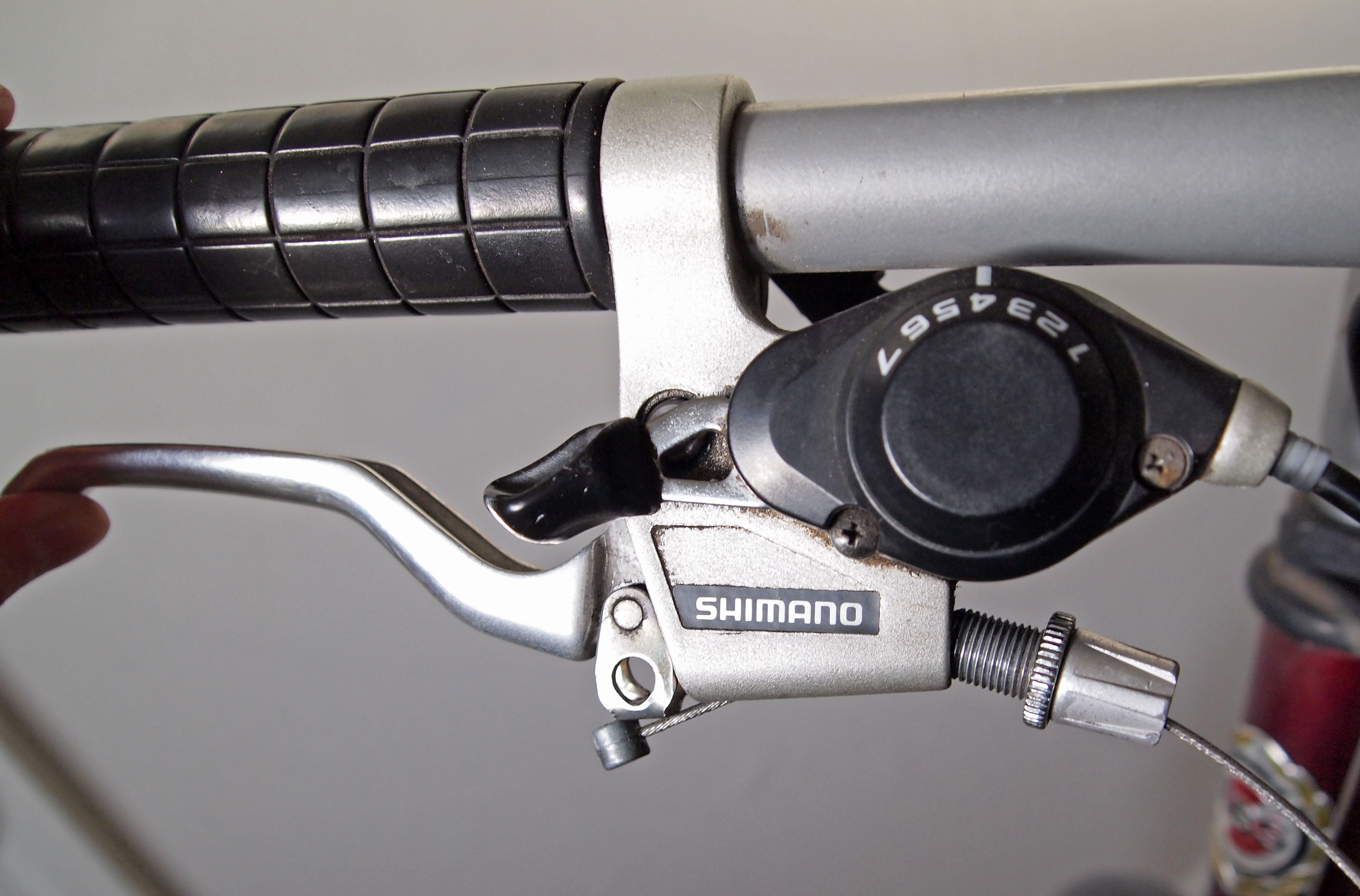 Bicycle brake cable partially unmounted from the brake lever. The black object on right is a gear shift lever.